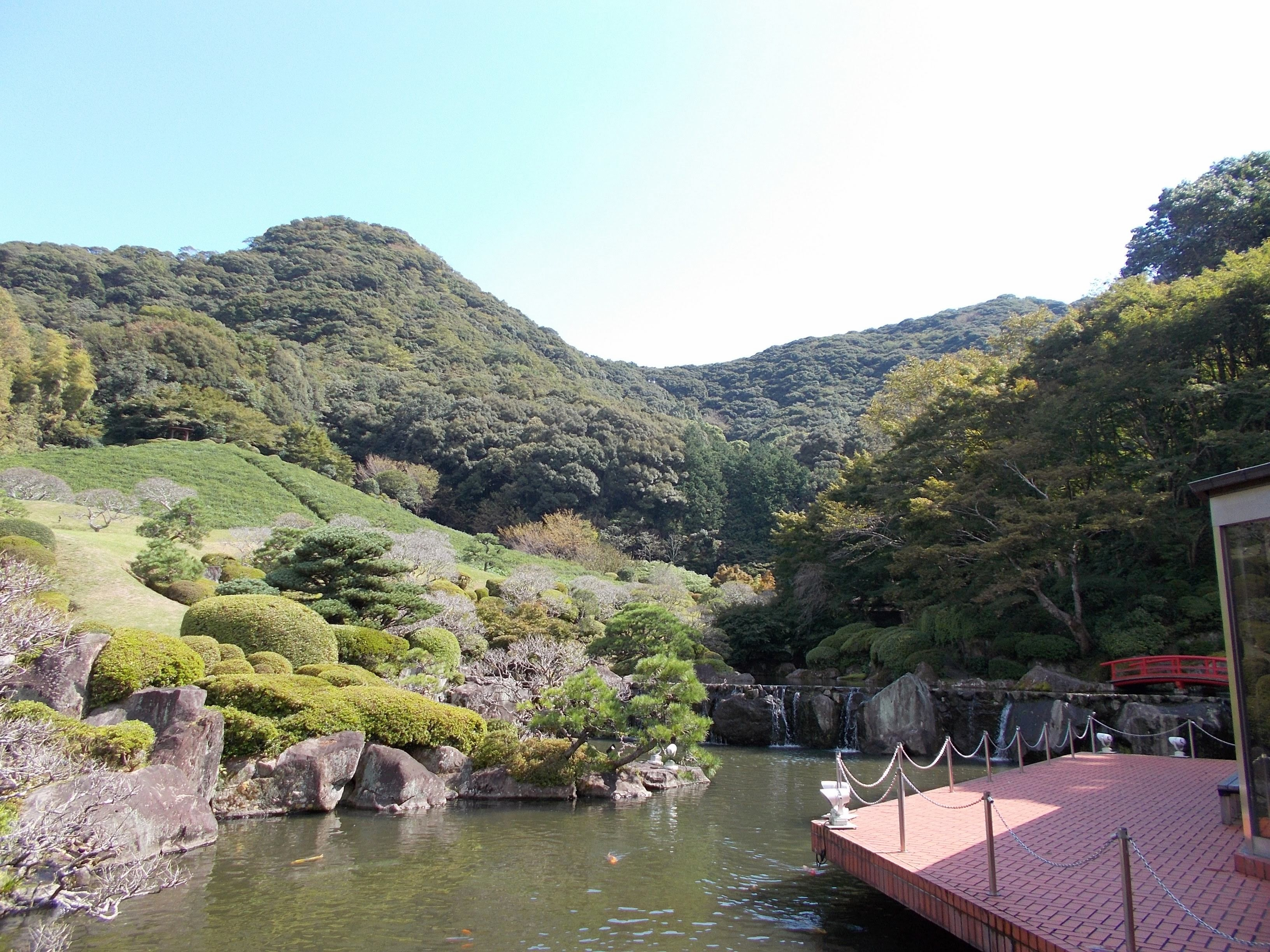 Keishu-en is a Japanese garden in Takeo, Saga, Japan